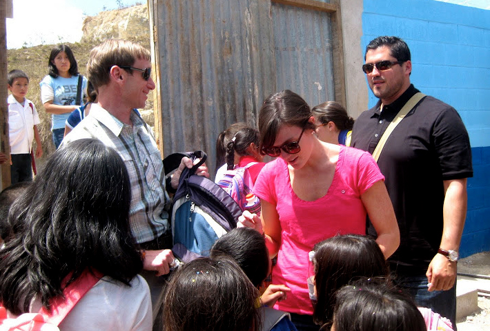 Global community service at Vanderbilt OGSM